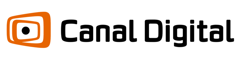 Canal Digital's logo